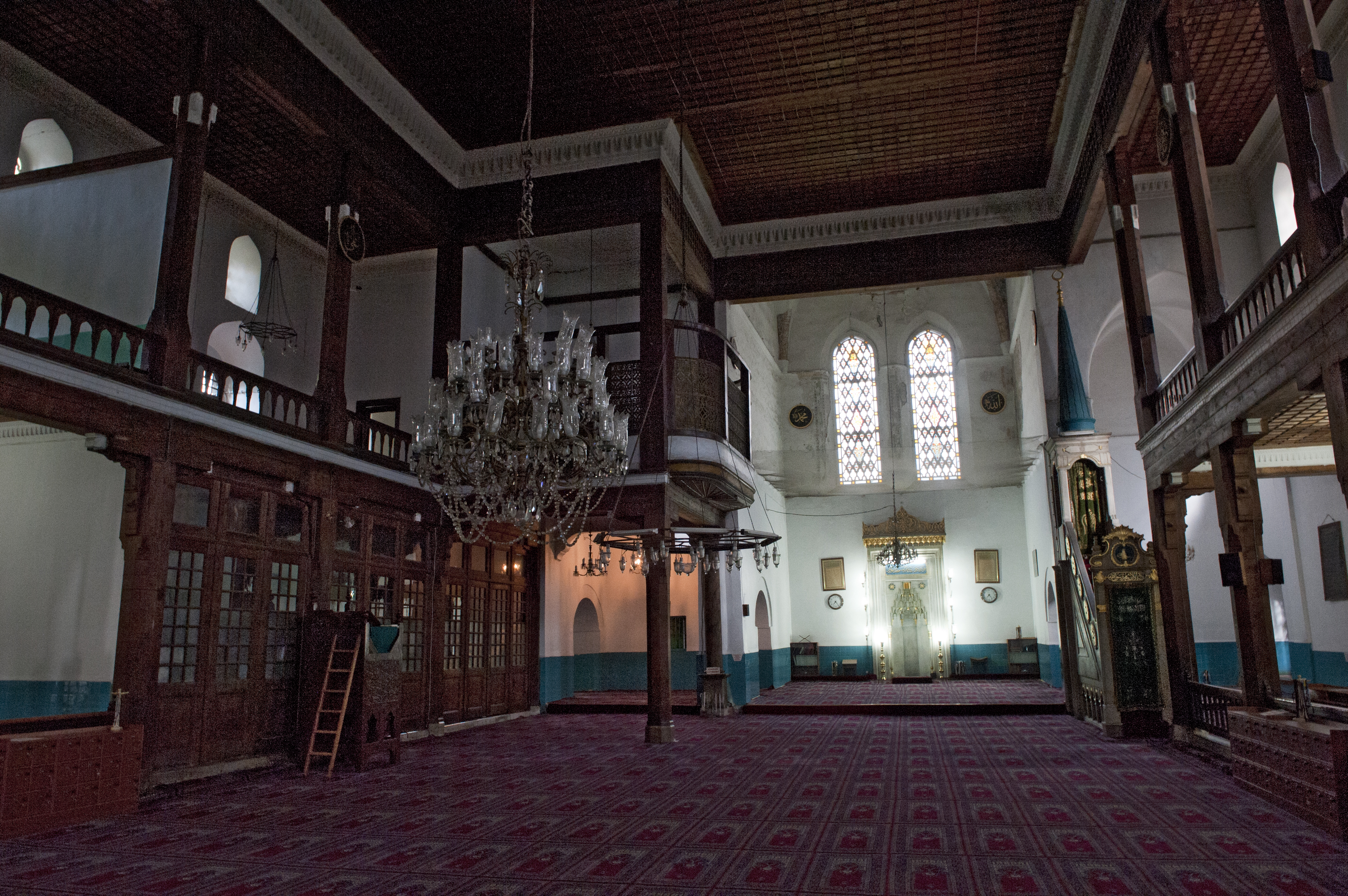 It was taken over by the Moors who had in the 16th century been expelled from Spain and who settled in this district. It was a church, probably founded by the Dominicans in 1323-37, dedicated to St. Dominic. It burned partially several times, was restored again and widened, but remained a Gothic typical Latin church: a long hall, ending in three rectangular apses and with a bellfry (now minaret) at the east end. The wooden roof and galleries date from a restoration in 1913-19, when the original floor was uncovered and many Genoese tombstones came to light, now in the Archaeological Museum.